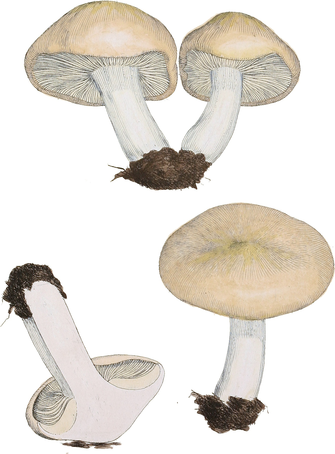 This is plate 281 from James Sowerby's Coloured Figures of English Fungi or Mushrooms. See below for more details.